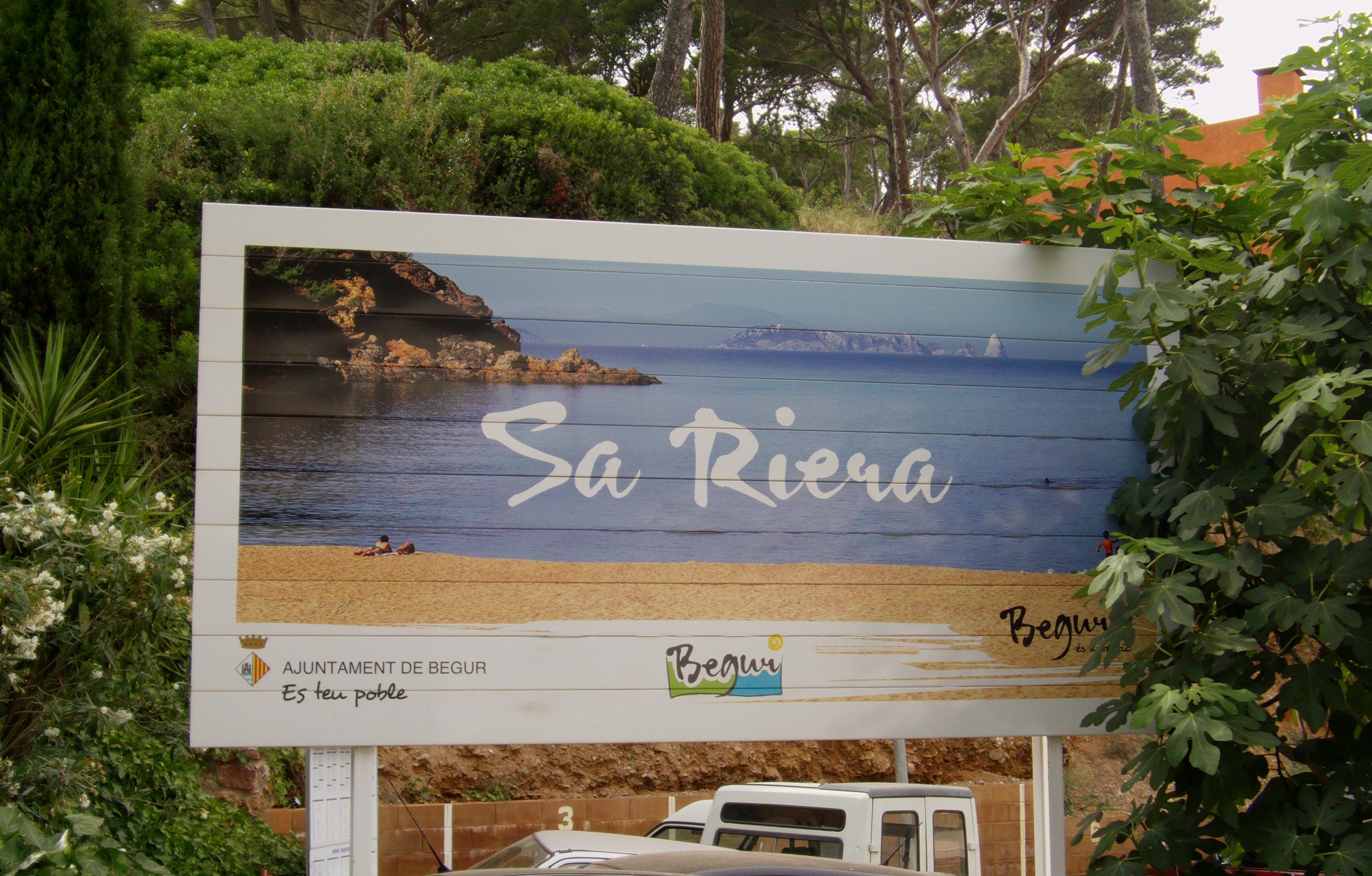 Picture of a street sign in Sa Riera (Begur, Catalonia).